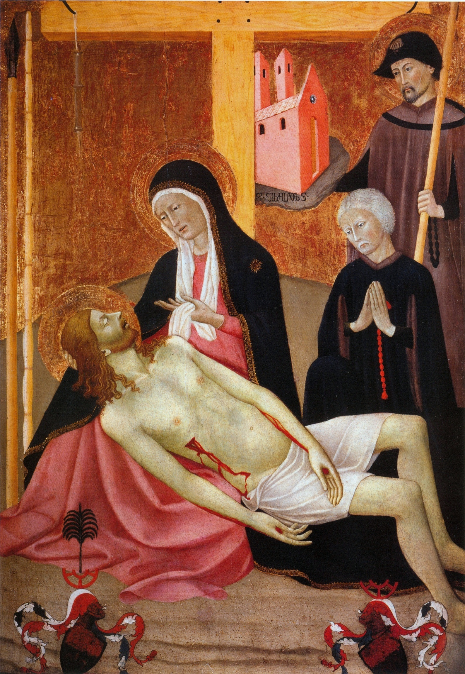 Osservanza Master. Lamento della Vergine sul Cristo deposto, il donatore Peter Volckammer, San Sinibaldo. ca. 1432, Monte dei Paschi, Siena